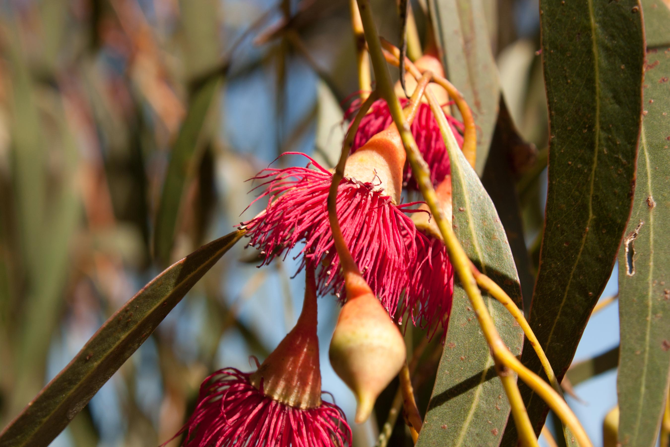 Eucalyptus leucoxylon rosea, Maggie Beer's Farm, Barossa Valley, South Australia